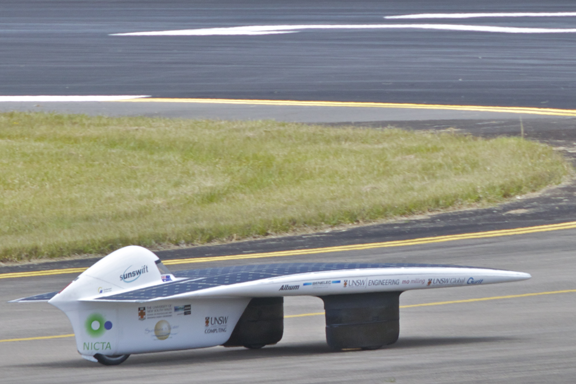 Sunswift IVy during the World Solar-Car Speed Record attempt, HMAS Albatross, Nowra, NSW, Australia